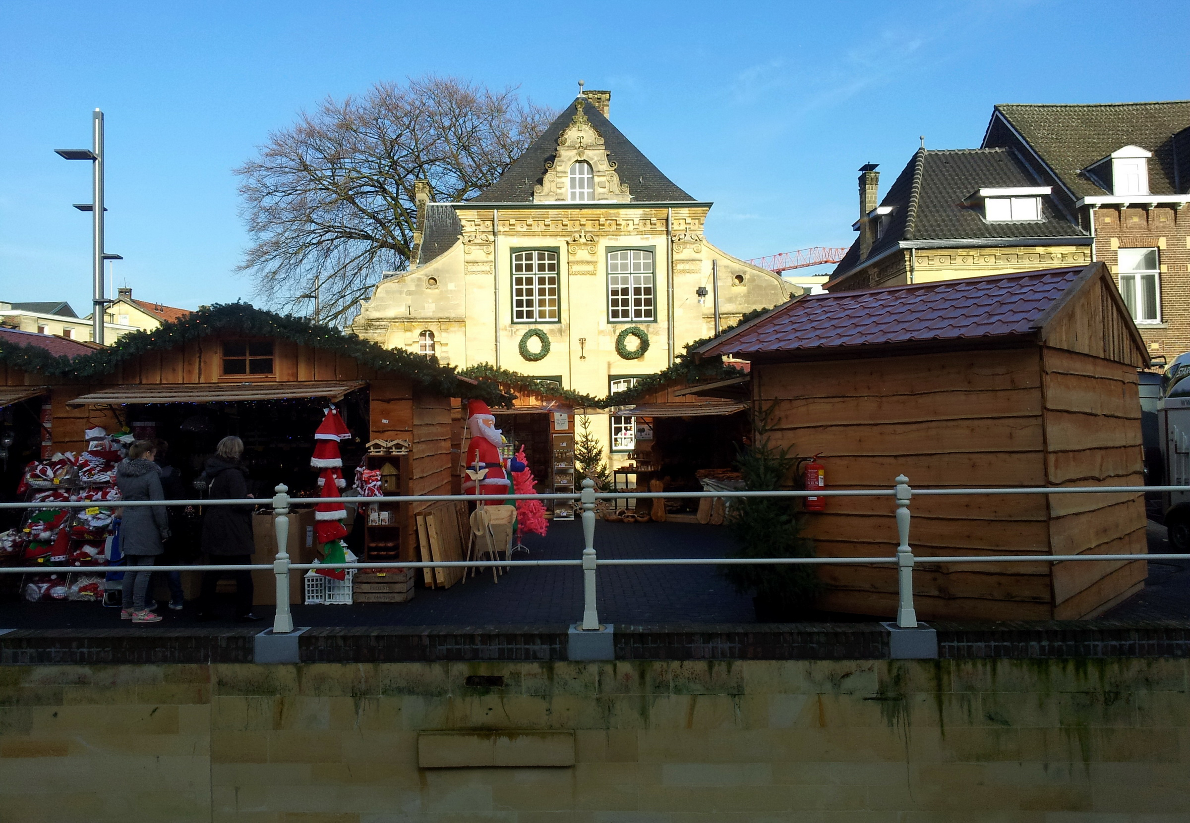 View of the Christmas market at Gosewijnstraat in Valkenburg, Limburg, the Netherlands. In the background the 17th-century Spaans Leenhof.